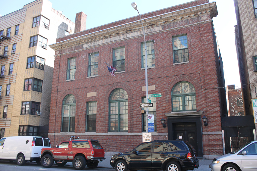 Fordham Library Center as it exists today, viewed from Coles Pl, across Bainbridge Ave.